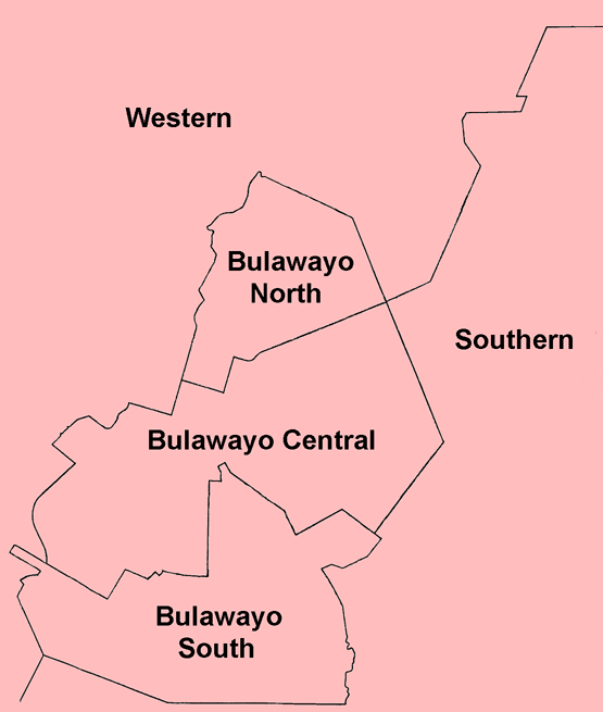 White roll constituencies in Bulawayo, Zimbabwe Rhodesia and Zimbabwe. Used at the 1979 and 1980 elections.